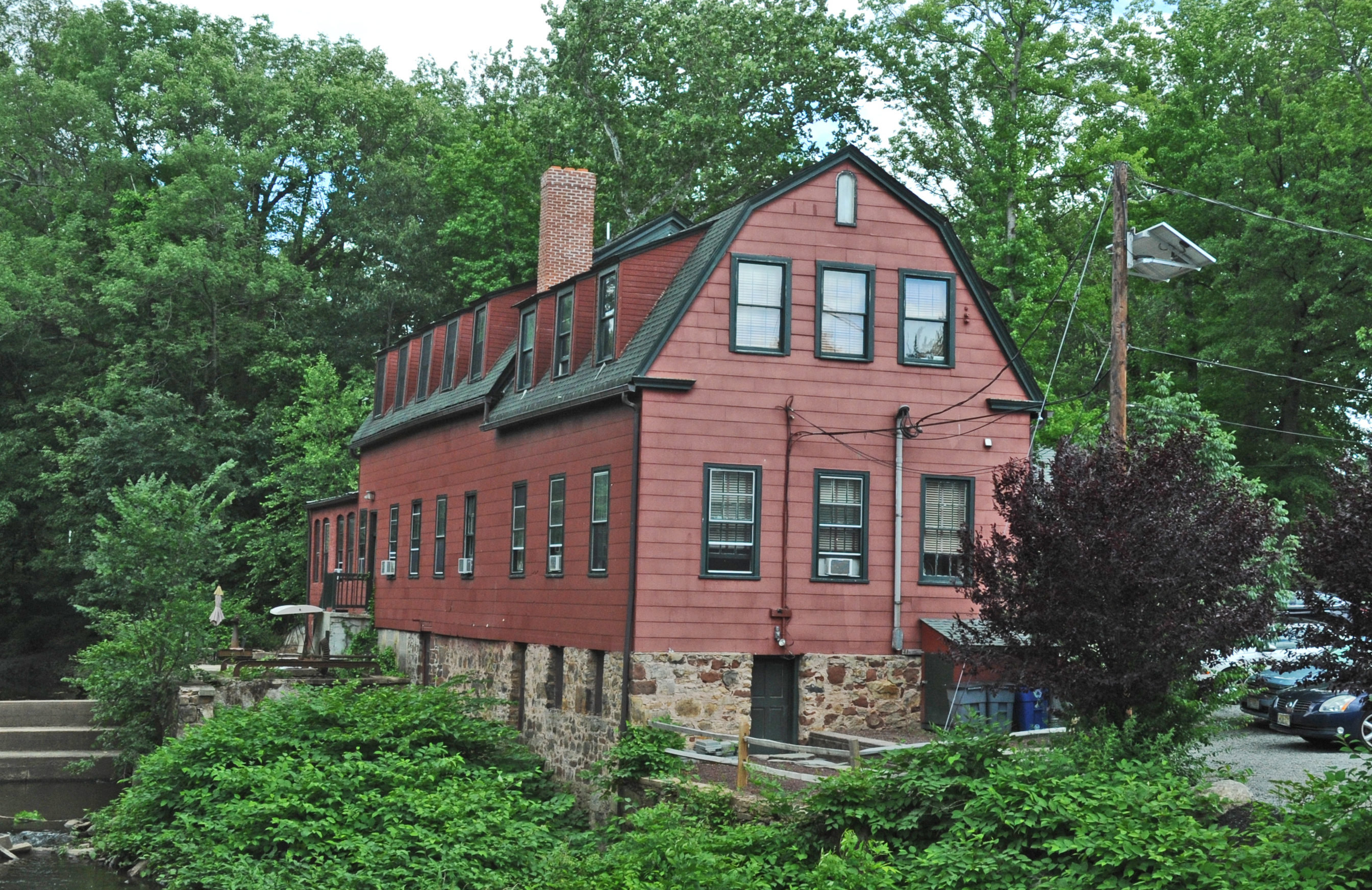 ORIGINAL SAWMILL BUILT BY BENJAMIN WILLIAMS CIRCA 1737 BUT THE PRESENT STRUCTURE PROBABLY DATES FROM CIRCA 1814. HAS NOW BEEN CONVERTED INTO OFFICES MAINLY MEDICAL SERVICES RELATED. LOCATED ON THE RAHWAY RIVER